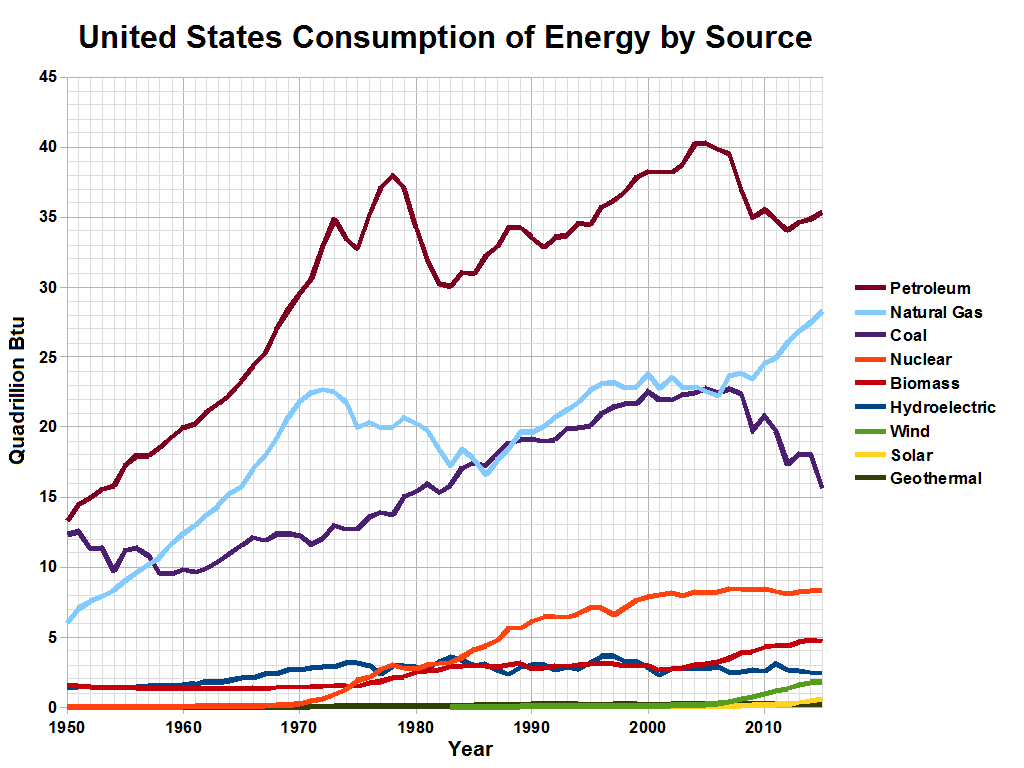 US energy consumption 1950-2015 from EIA Monthly Energy Review, Table 1.3. This file may be updated each year as new data becomes available.